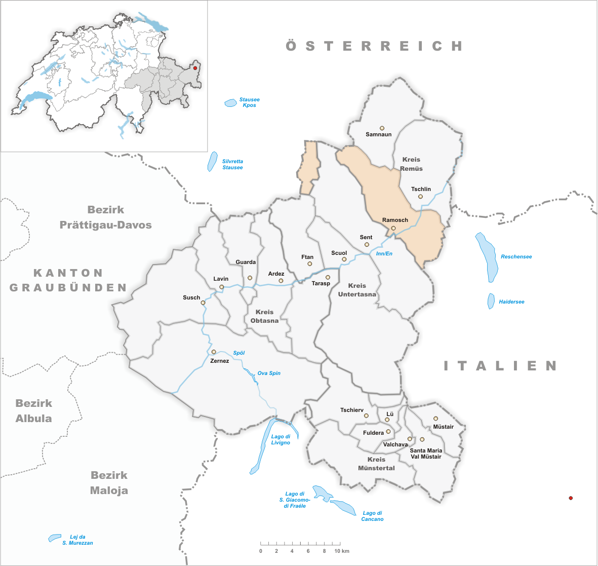 Municipality Ramosch